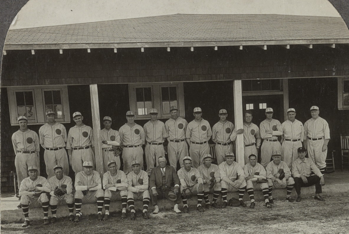 larger crop and saved as PNG